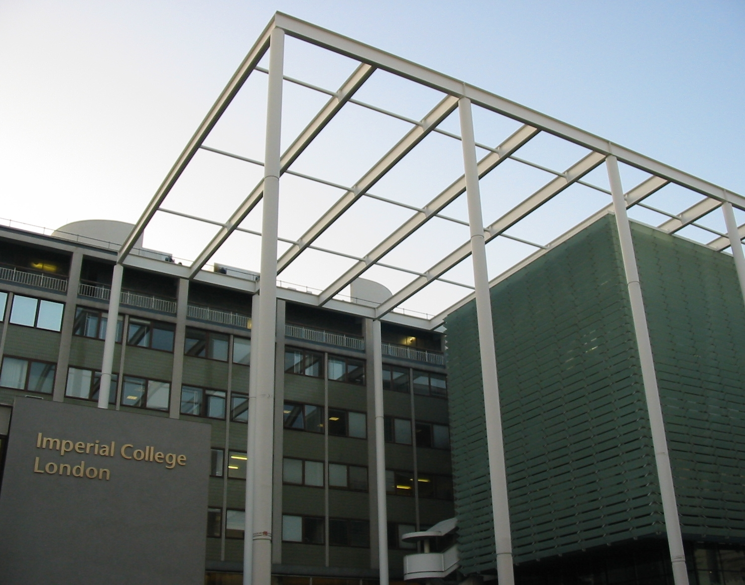 Imperial College London, main entrance on Exhibition Road, Westminster, London